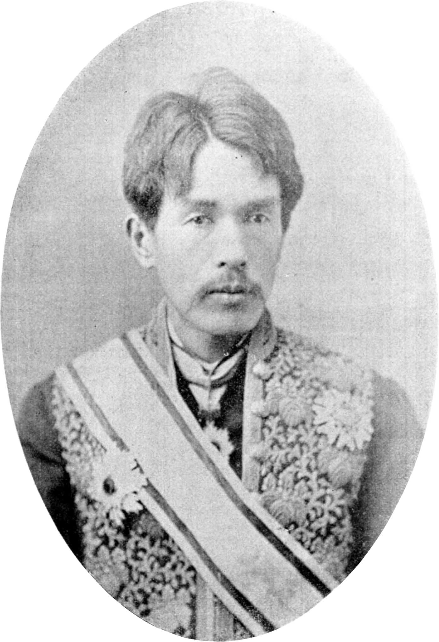 Late Vice-Count Inouye, Ex-Minister of Education.